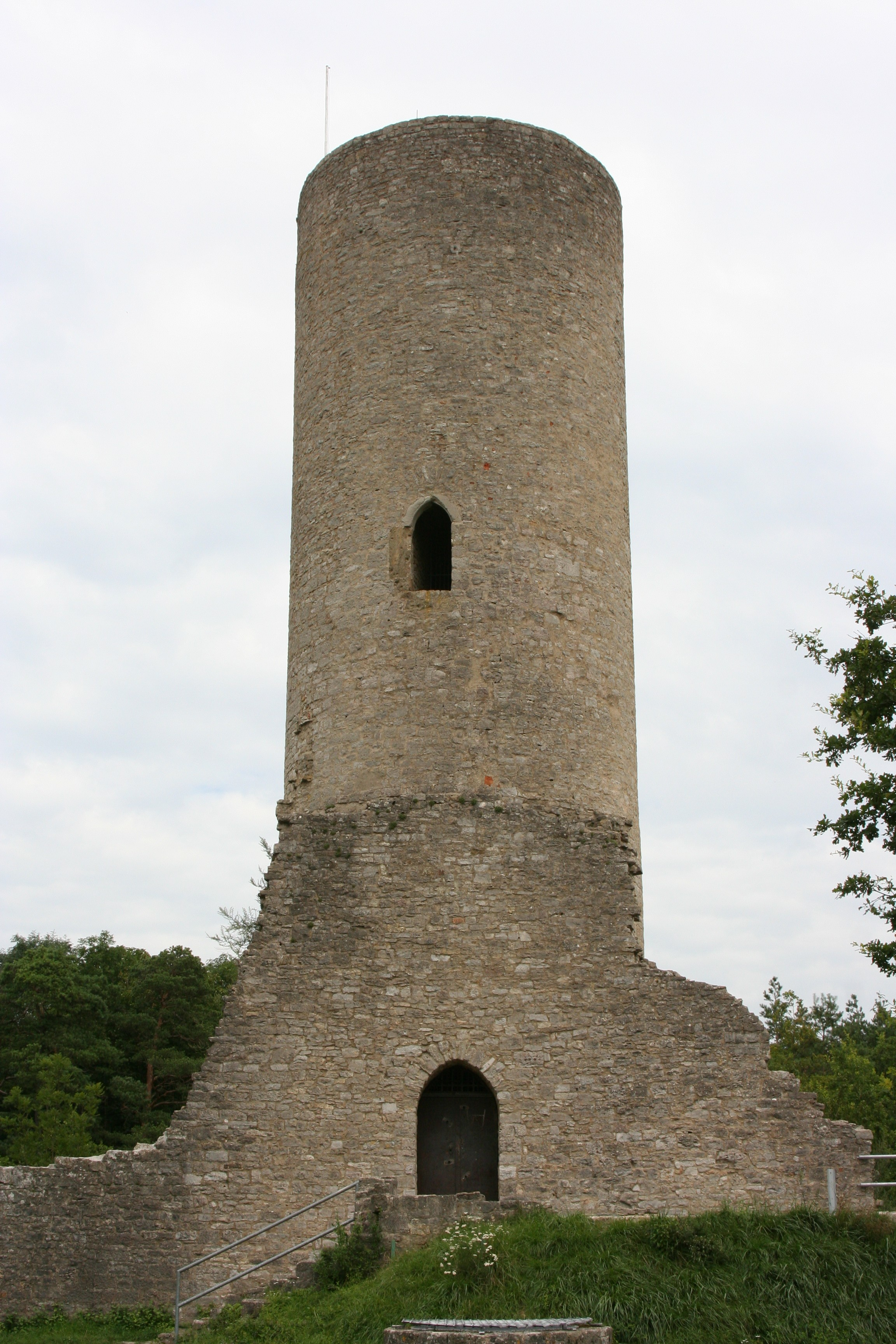 Castle ruin Reichelsburg. Keep from the West